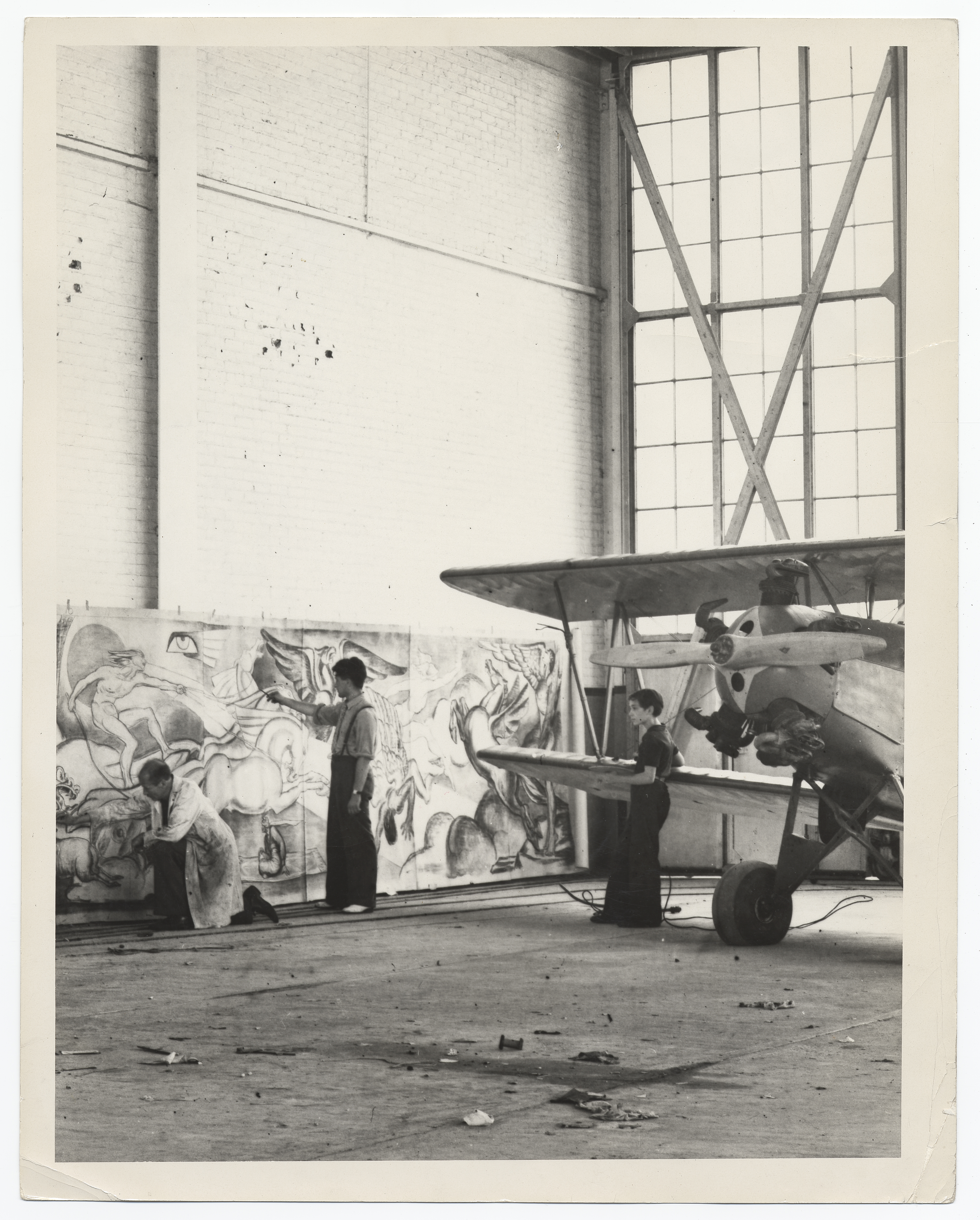 Chodorow and August Henkel at work on their mural. Identification on verso (handwritten): Henkel on far left. Identification on verso (handwritten and stamped): W.P.A. Federal Art Project; 6 East 39th St., New York, N.Y. Negative No: SF-117; Title: Aviation - Artists at Work; Artist: Eugene Choderow and August Henkel, Oil on Canvas, Floyd Bennett Airport.